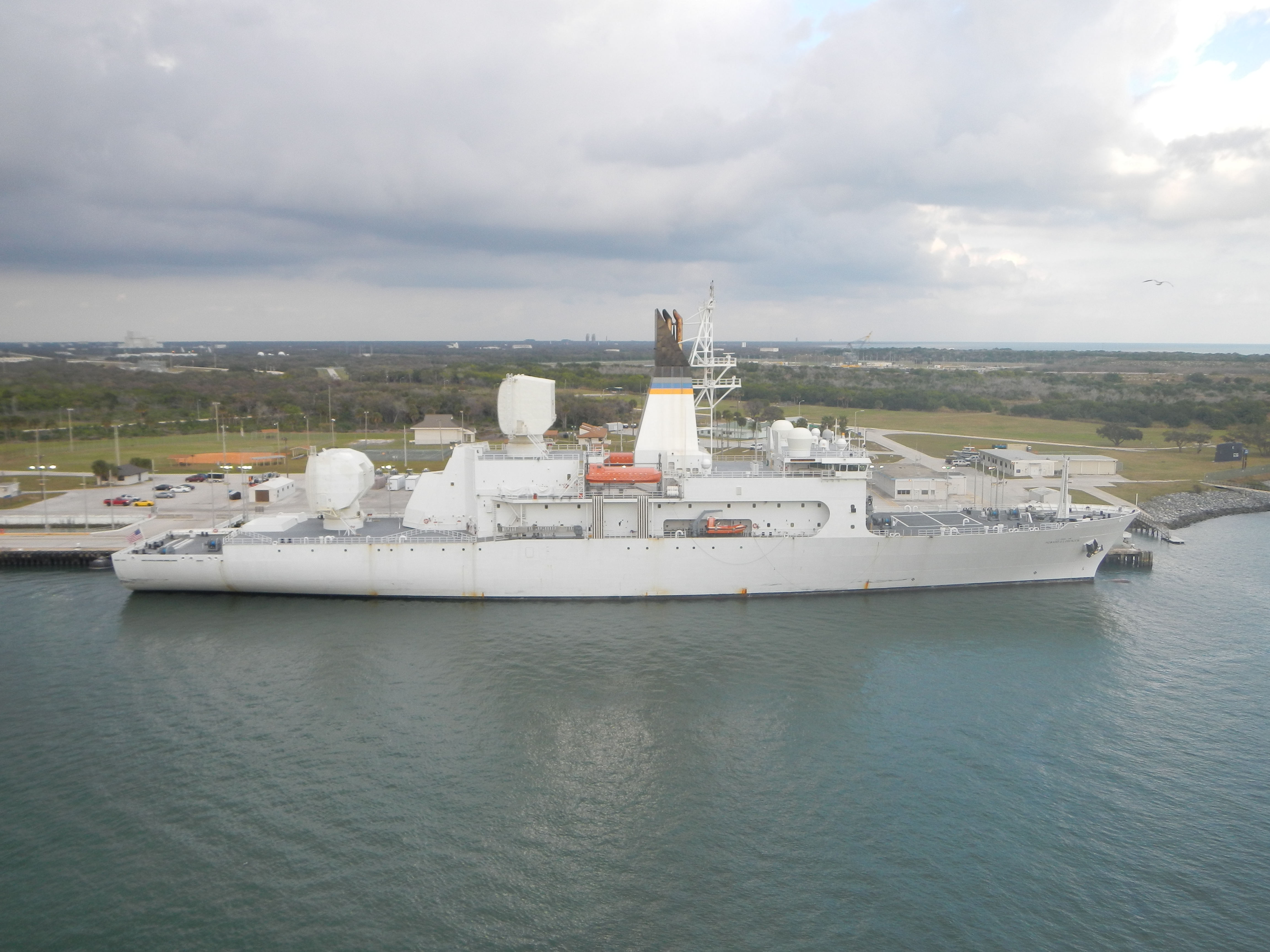 Taken from the Freedom of the Seas on February 27 2013, at Port Canaveral Florida USA.